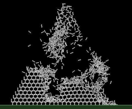 Screen shot of Box2D physics engine